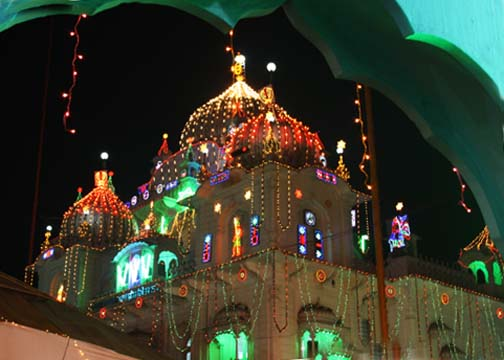 World famous Gurudwara During Prakash Utsav ( Light Festival) , Birth place of Sri Guru Gobind Singhjee, the 10th and last Guru of Sikhism